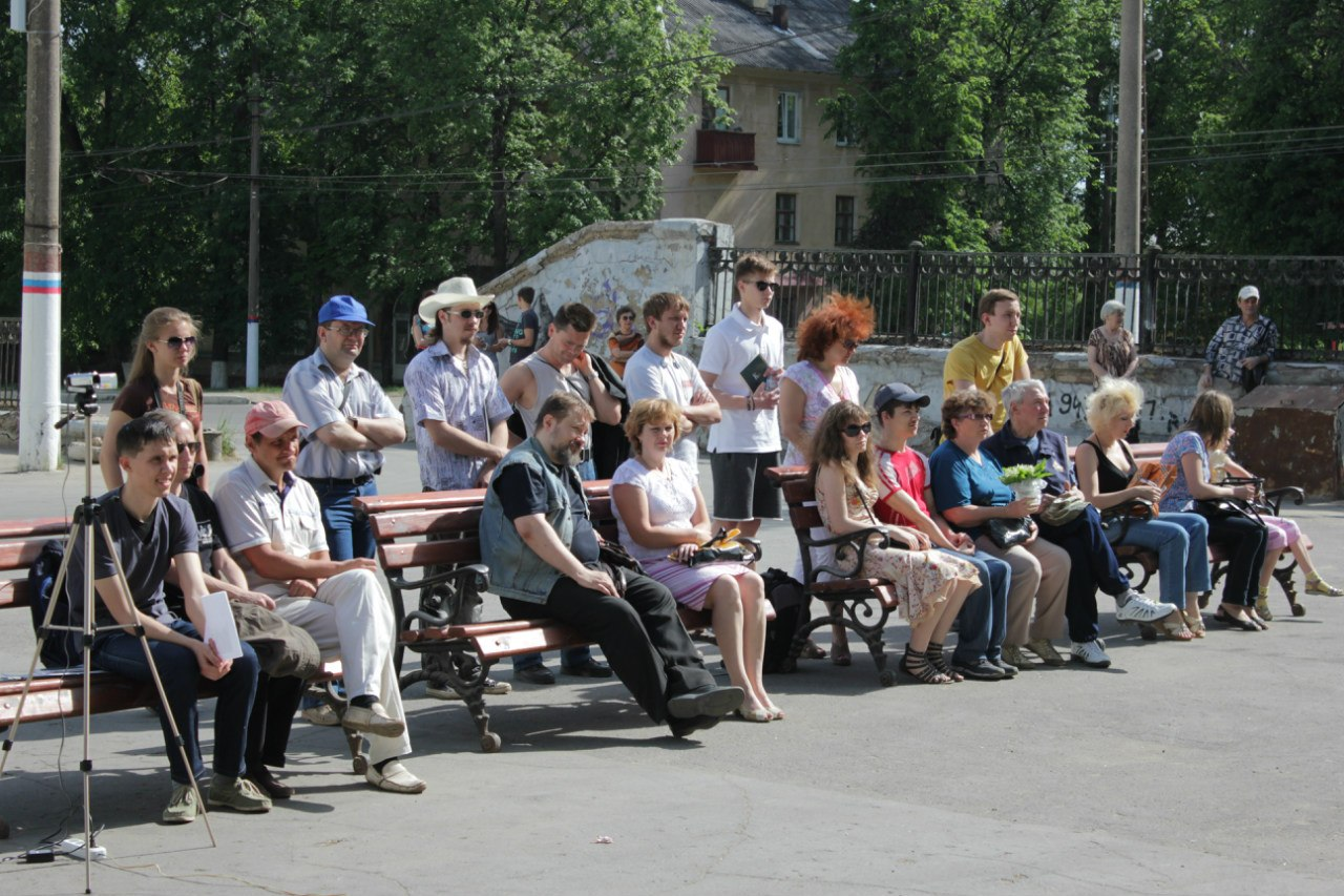 Зрители в Туле